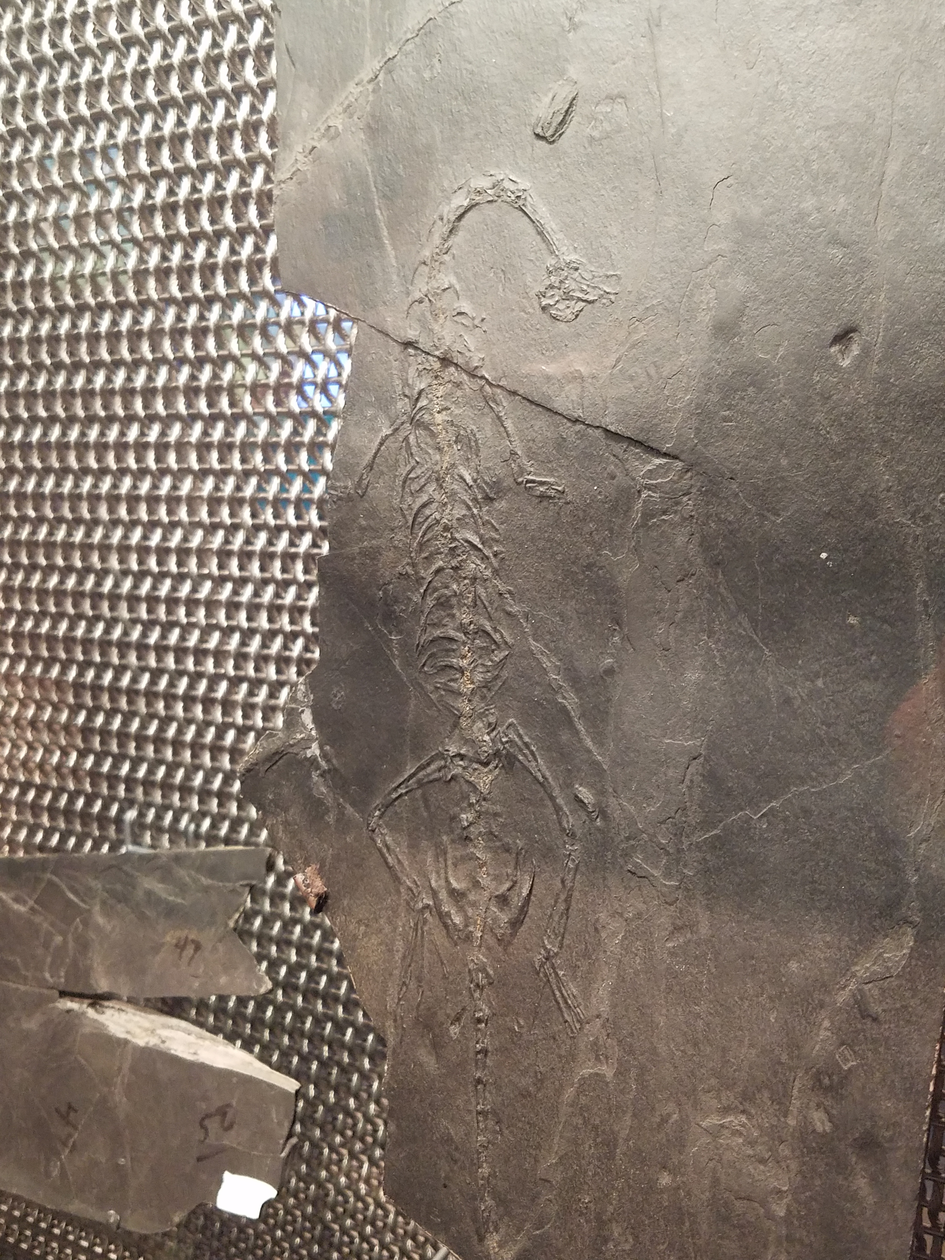 An articulated skeleton of a type A Tanytrachelos ahynis. Photo taken at the Virginia Museum of Natural History.